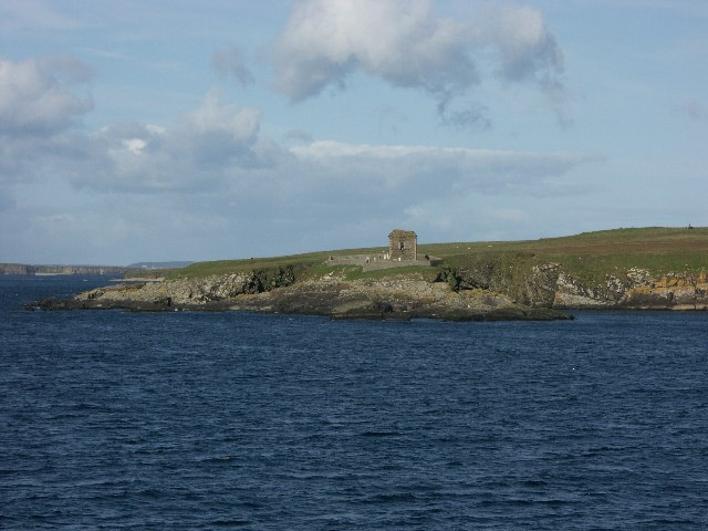 Stroma Burial vault and doocot on Stroma - photograph taken from ferry on the way past. Stroma, Pentland Firth, Scotland